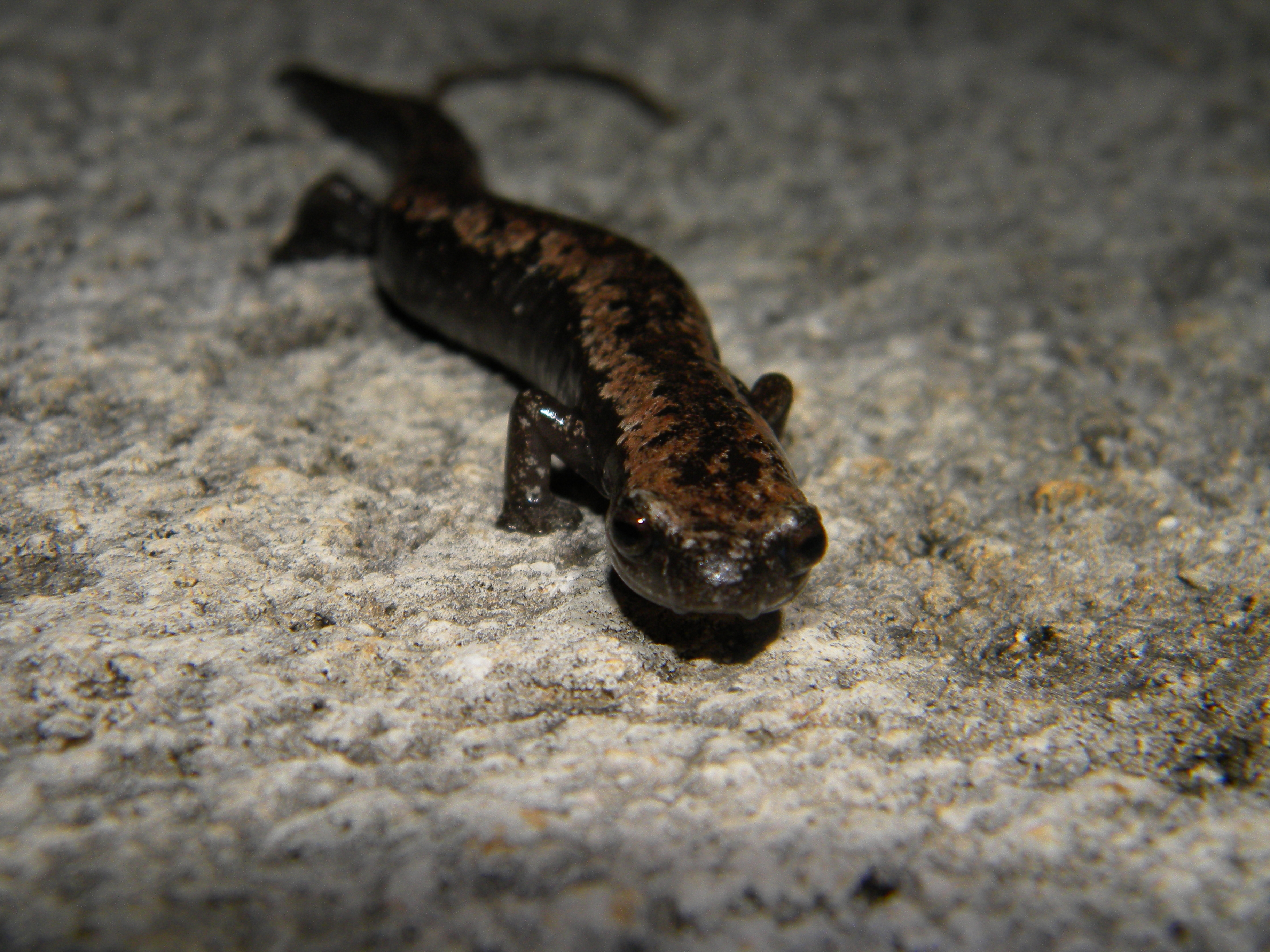 Yucatán Mushroomtongue Salamander (Bolitoglossa yucatana) Merida, Yucatan, Mexico Their belly is blue with white spots. I found this one on a small stick, next to the sidewalk, near a construction area, in which there's still some forest around. It rained a little bit that day, and its hiding spot was a crevice under the sidewalk.